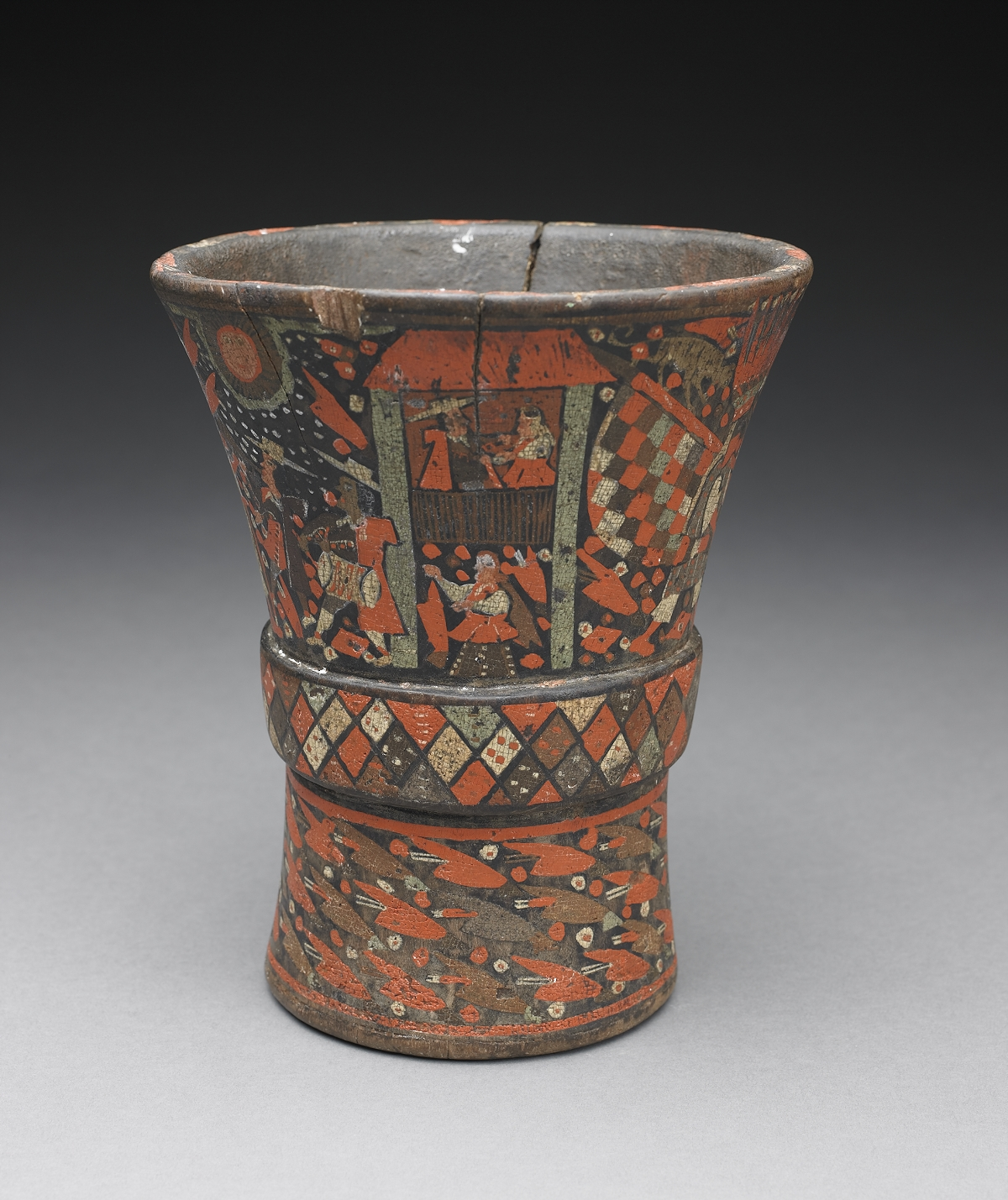 Colonial Period, Inca Culture Cup (Qero)